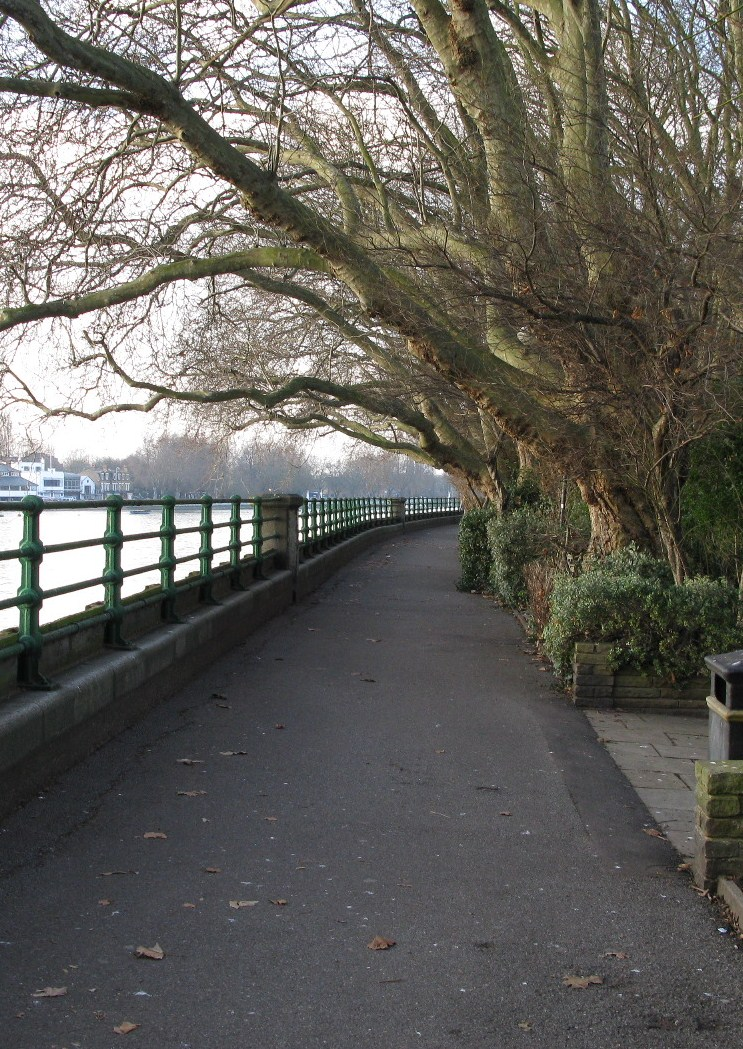 Main walkway of Bishops park